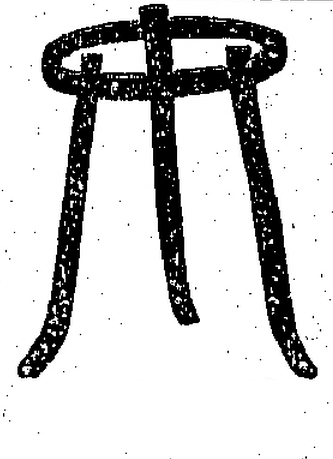 Tripod for laboratory